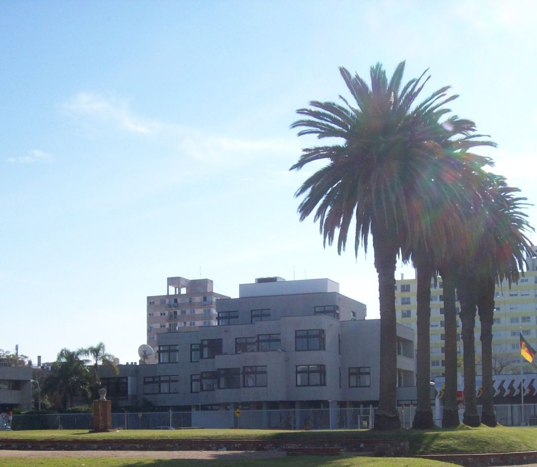 Building of the Embassy of Germany in Montevideo, Uruguay